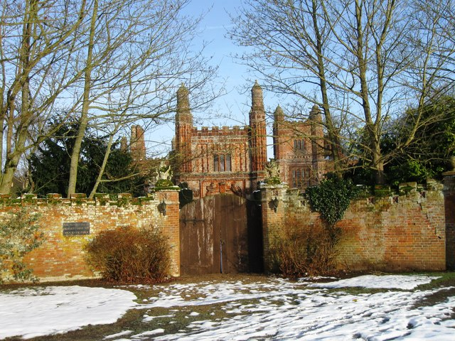 Entrance to Manor House, East Barsham